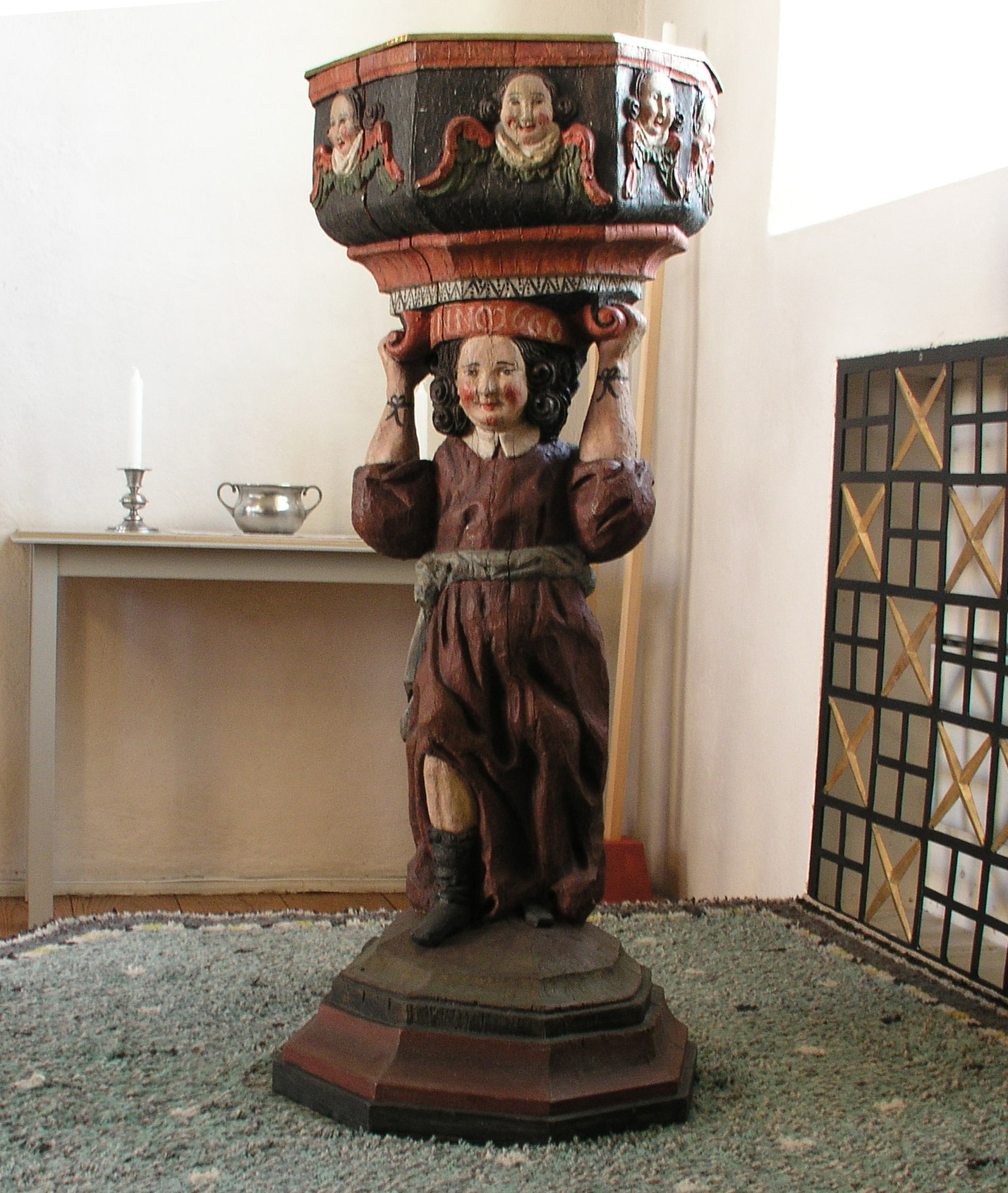 Sjögesta church. Baptismal font, dated 1660.